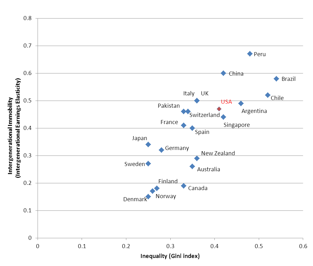 Graph of the relationship of "intergenerational earnings elasticity" (i.e. lack of social mobility) and income inequality in 23, mostly Western, countries.